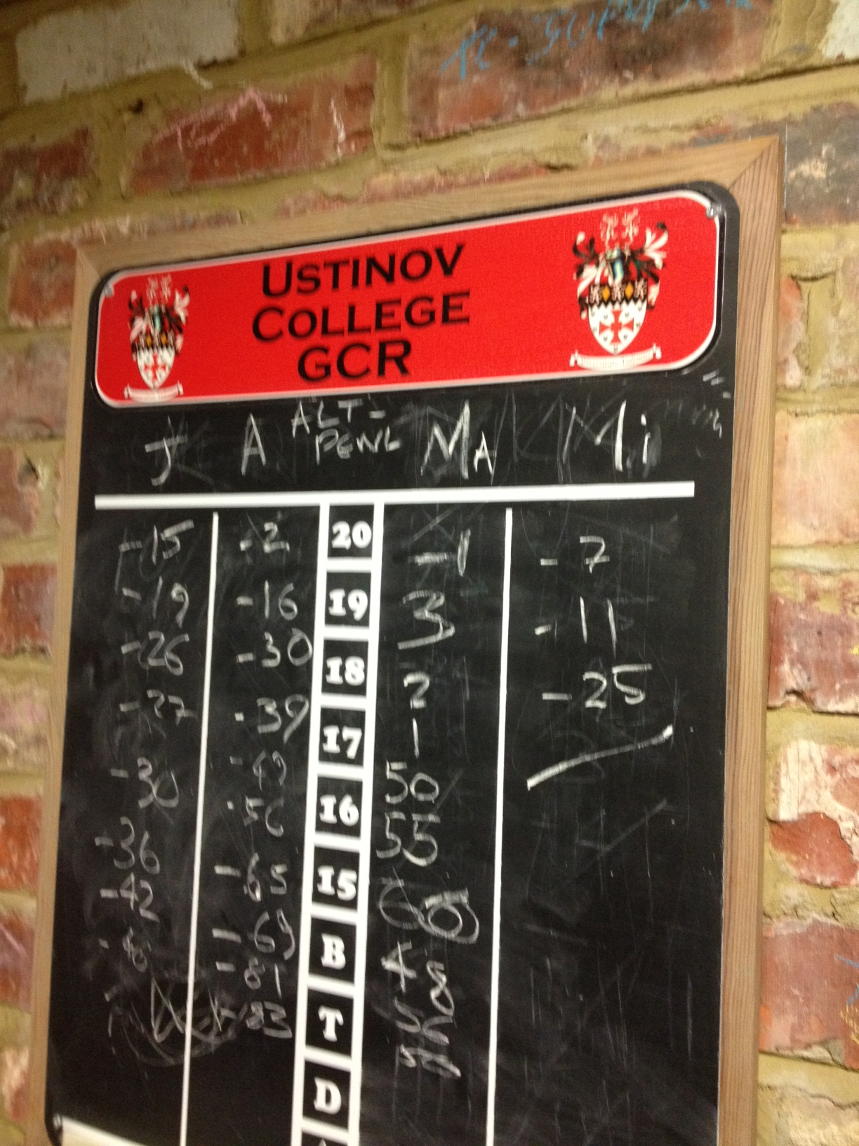 The inaugural game of alt pool at Ustinov College, Durham